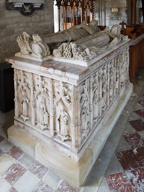 St John the Baptist church, Kinlet - tomb-chest of Sir Humphrey Blount & wife